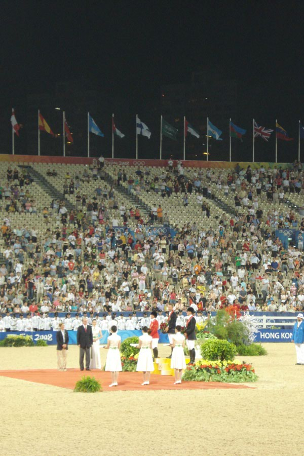 Beijing 2008 Olympic Game - Equestrian Event - Victory Ceremony of Individual Eventing